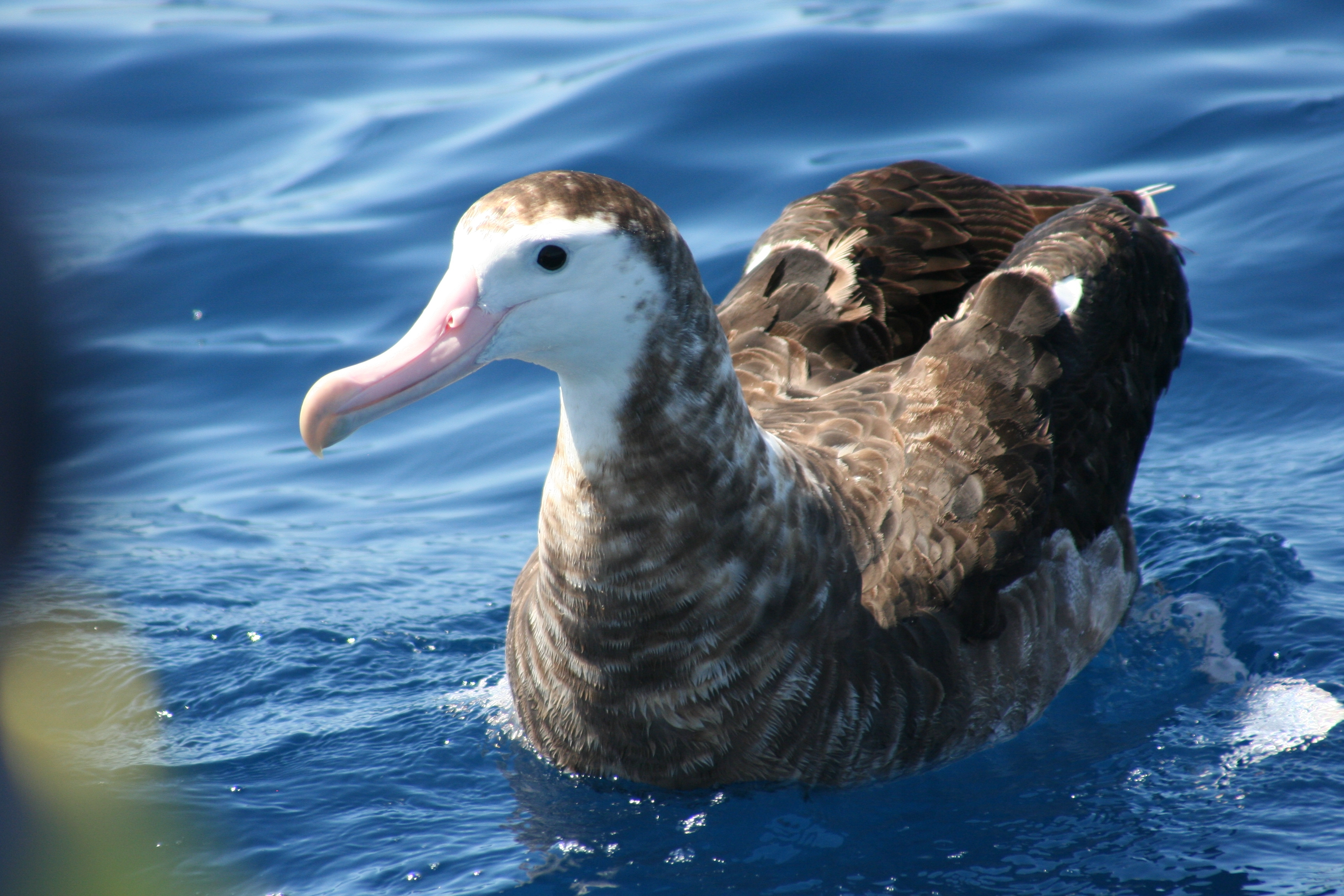 Gibson's Albatross (Diomedea antipodensis gibsoni). Subspecies of Antipodean Albatross, considered by some to be same species as Wandering Albatross